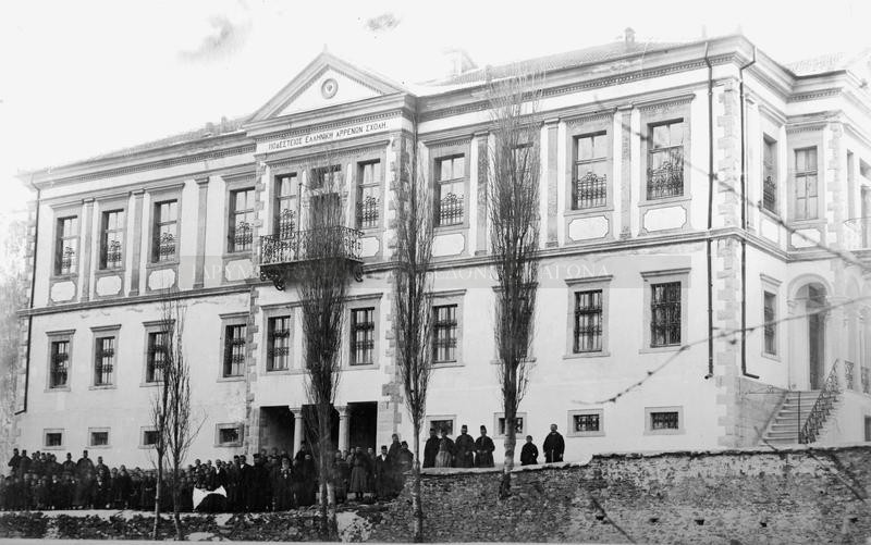 Greek school in Pisoder, Greece